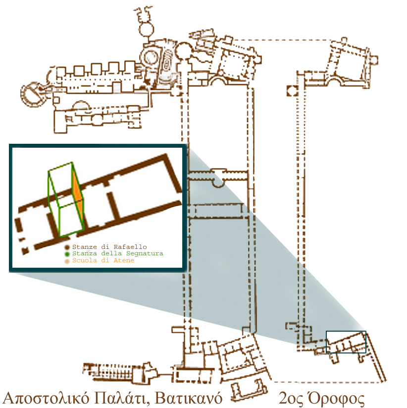 Blueprint of the second floor of the Musei Vaticani, showing the location of a) Stanze di Rafaello, b)Stanza della Segnatura and c) fresco "Scuola di Αtene"